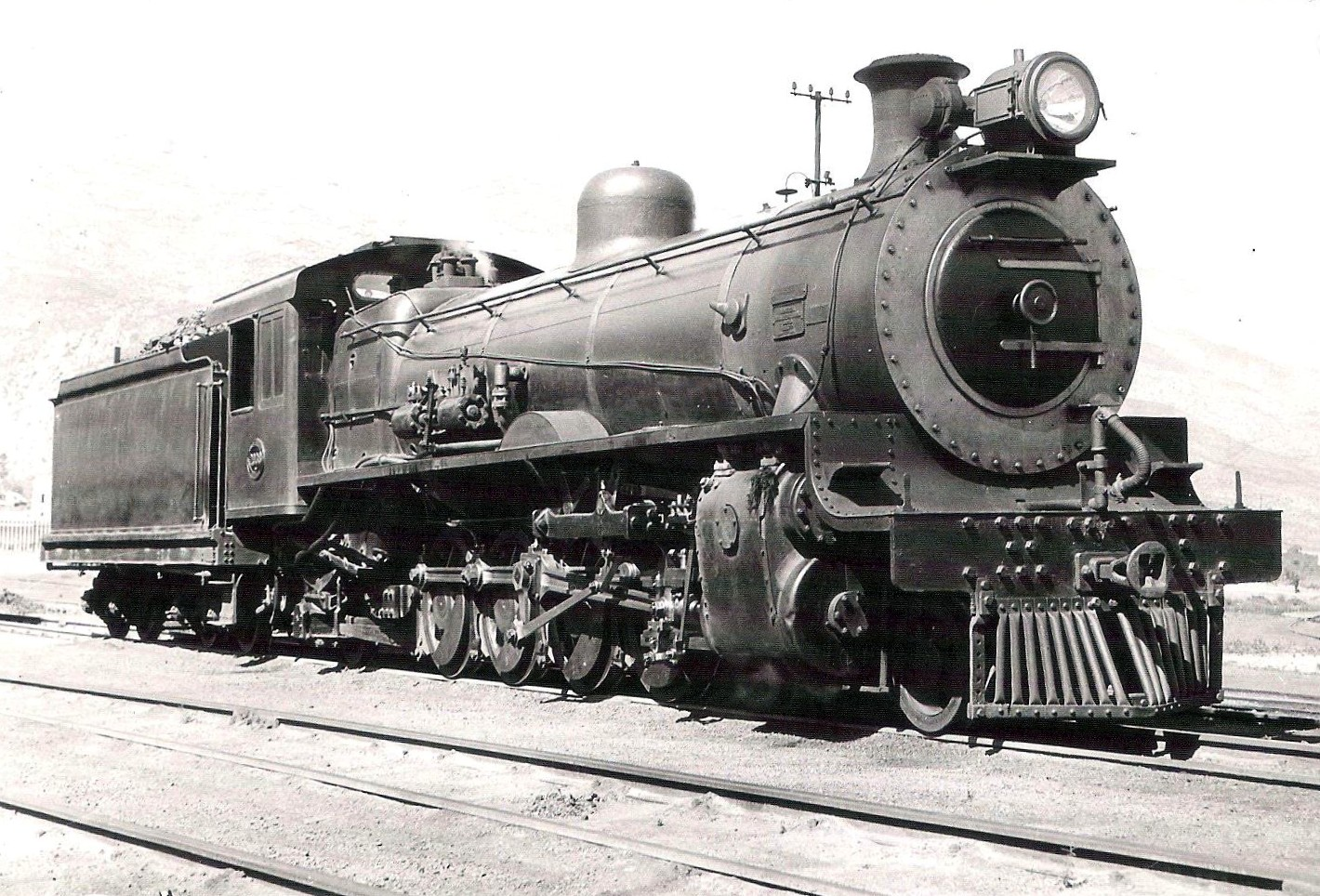 South African Railways Class 14CM, fourth batch, possibly no. 2028